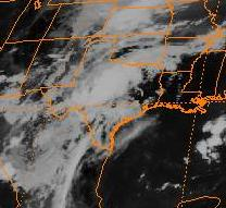 IR image of the remnant storms associated with Tropical Storm Amelia on August 3, 1978. At this point, record-breaking rainfall was being recorded at Medina from this storm.